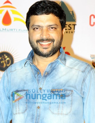 Ankush Choudhary at Music Launch of Dagdi Chawl